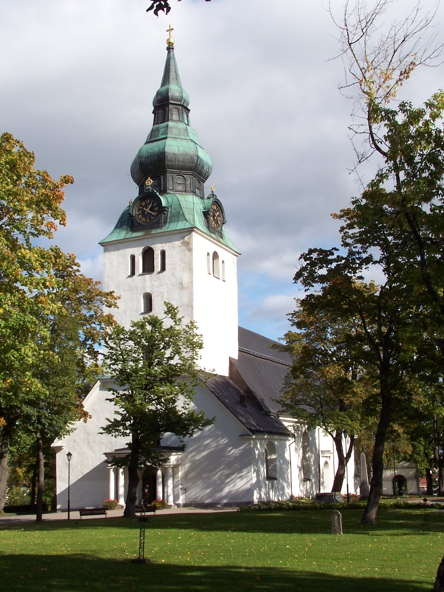 Hudiksvall church from southwest, Sweden